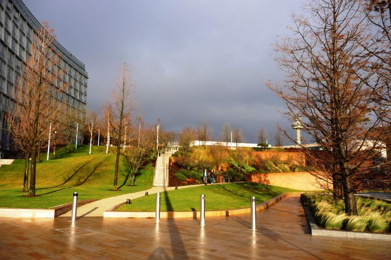 Image shows Chavasse Park in Liverpool